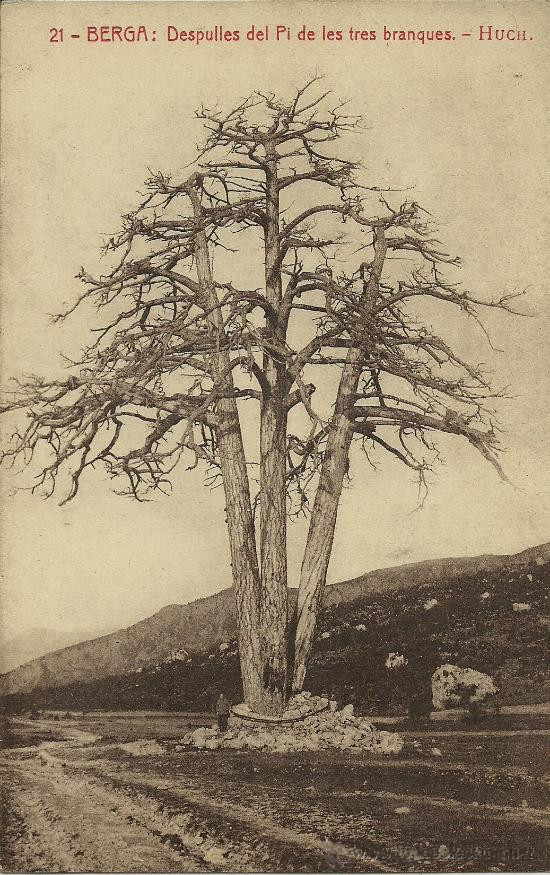 Caption: "Berga: Remains of the Pi de les Tres Branques". An article "Història Gràfica del Berguedà: Jaume Huch i Guixer, fotògraf (1)" by Domènec and Jaume Huch in Issue 1983/6 of L'Erol: Revista Cultural del Berguedà (PDF scan at [1]) gives the date of an identical photo as 1915.